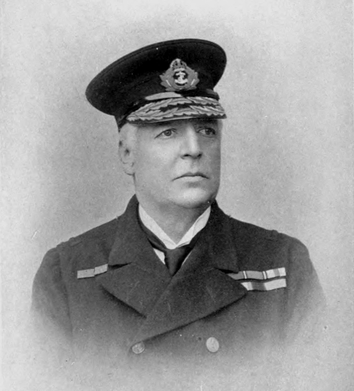 Charles Beresford